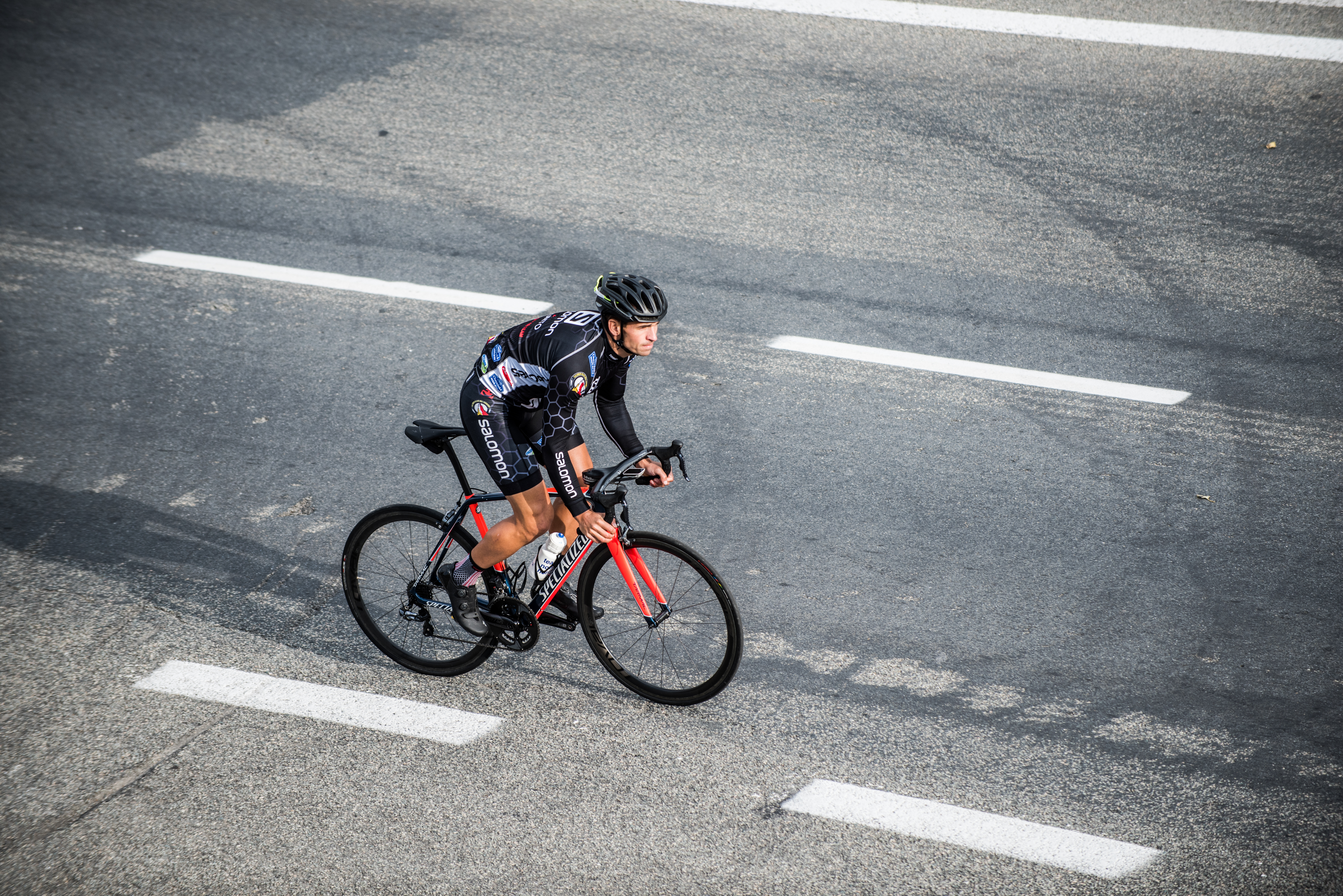 Tomas Petrecek - Cycling - Jeseniky mountains